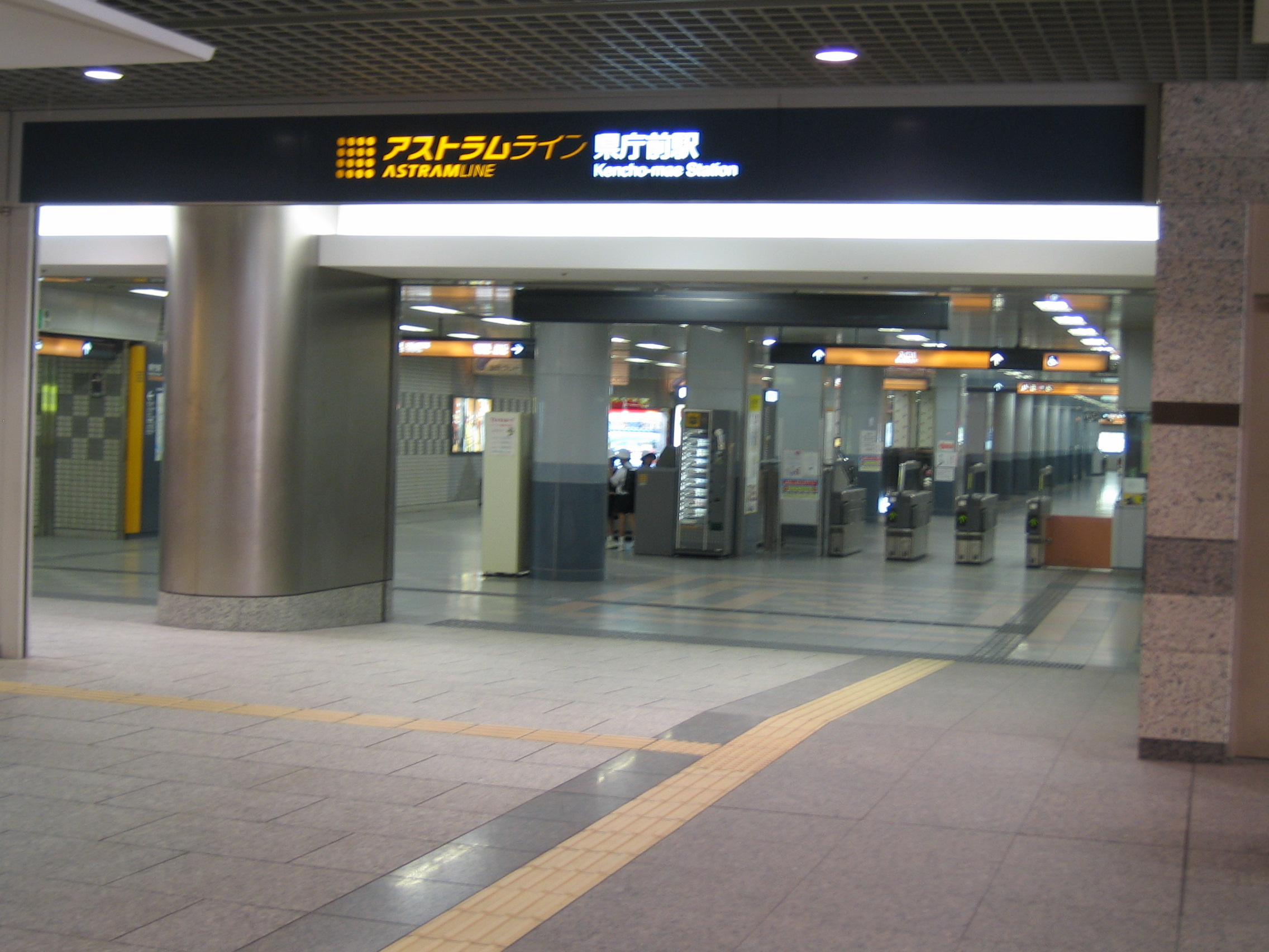 Astram Line Kencho-mae Station